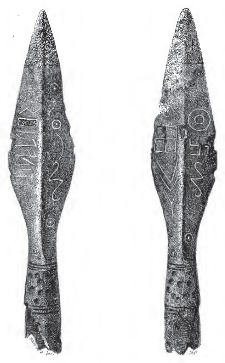 Drawing of the Kovel spearhead, with a swastika and runic inscription.